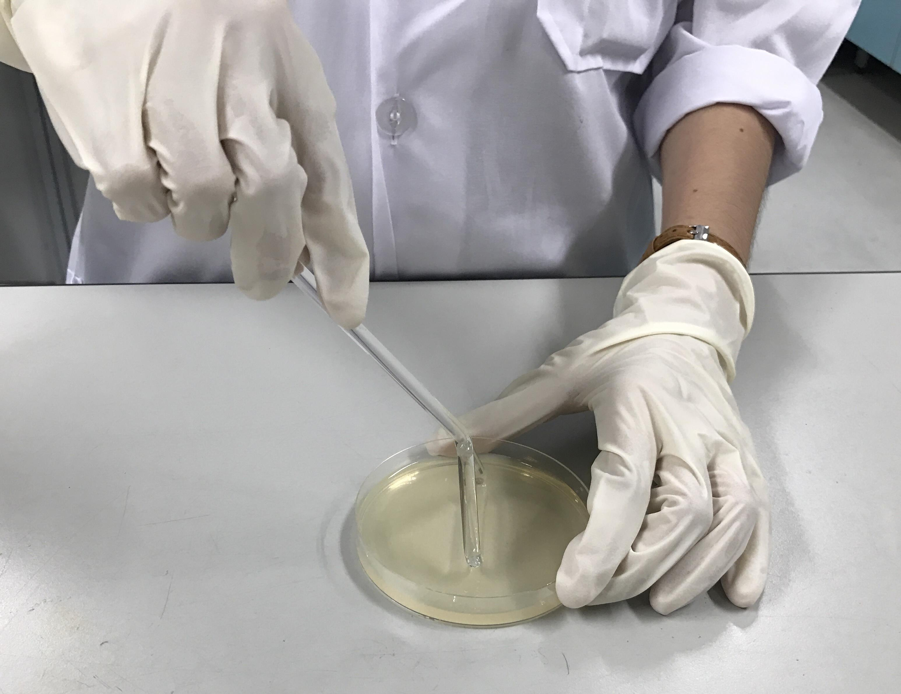 posture of using a cell spreader